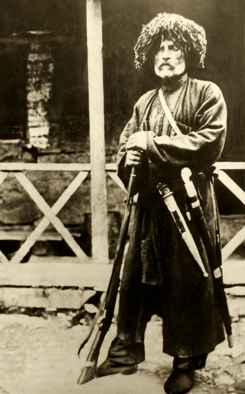 Dying Vazha Pshavela, tiflis 1915